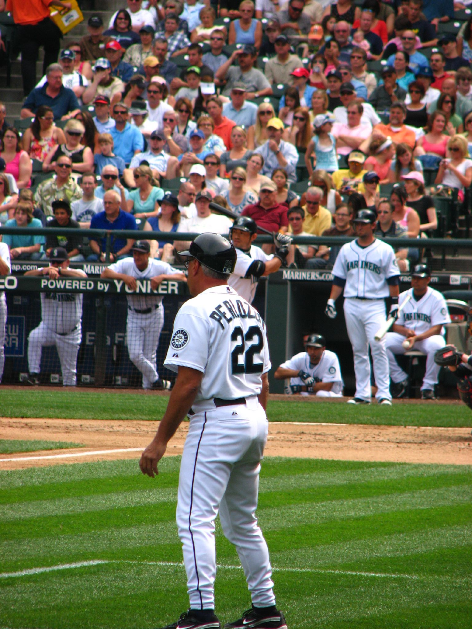 Sam Perlozzo with the Seattle Mariners in 2008.